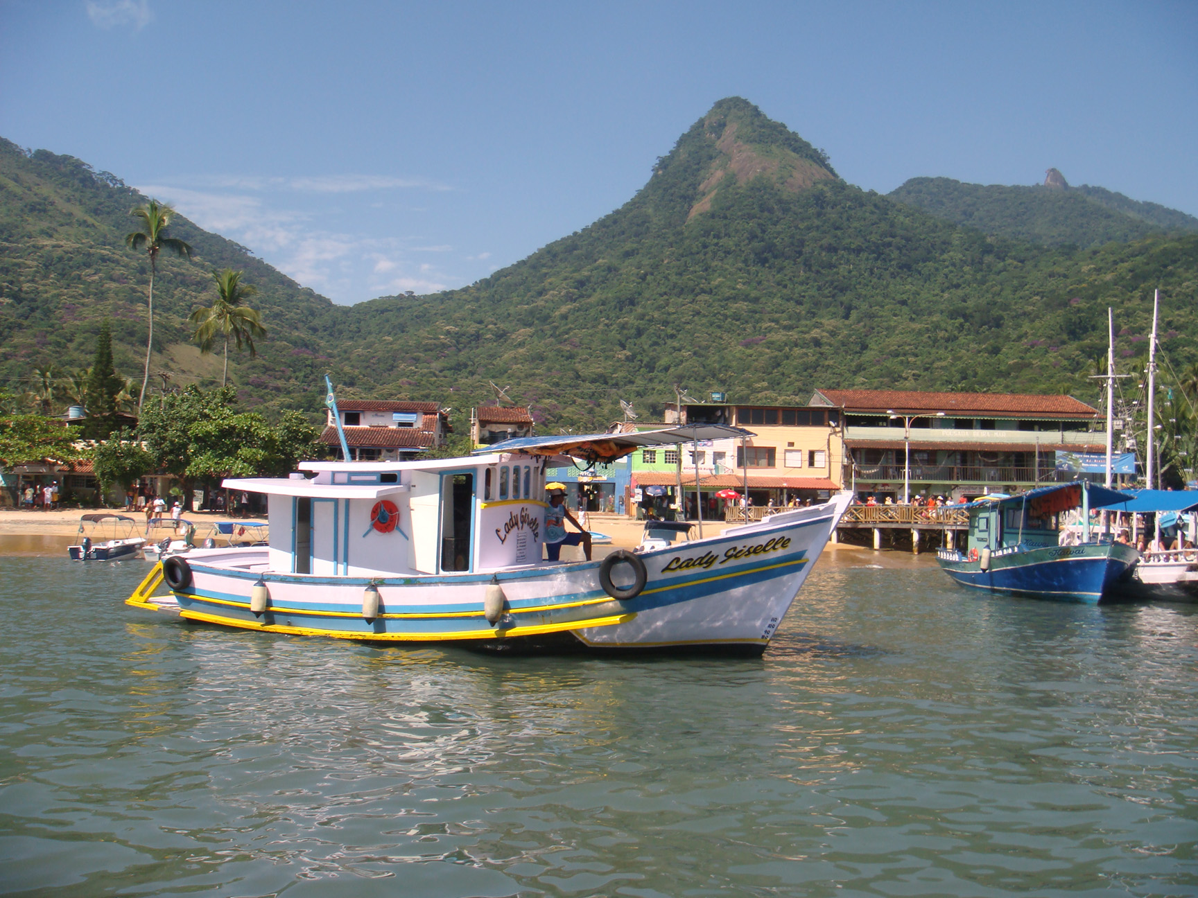 Harbour area in Vila do Abraão, Ilha Grande, Brazil